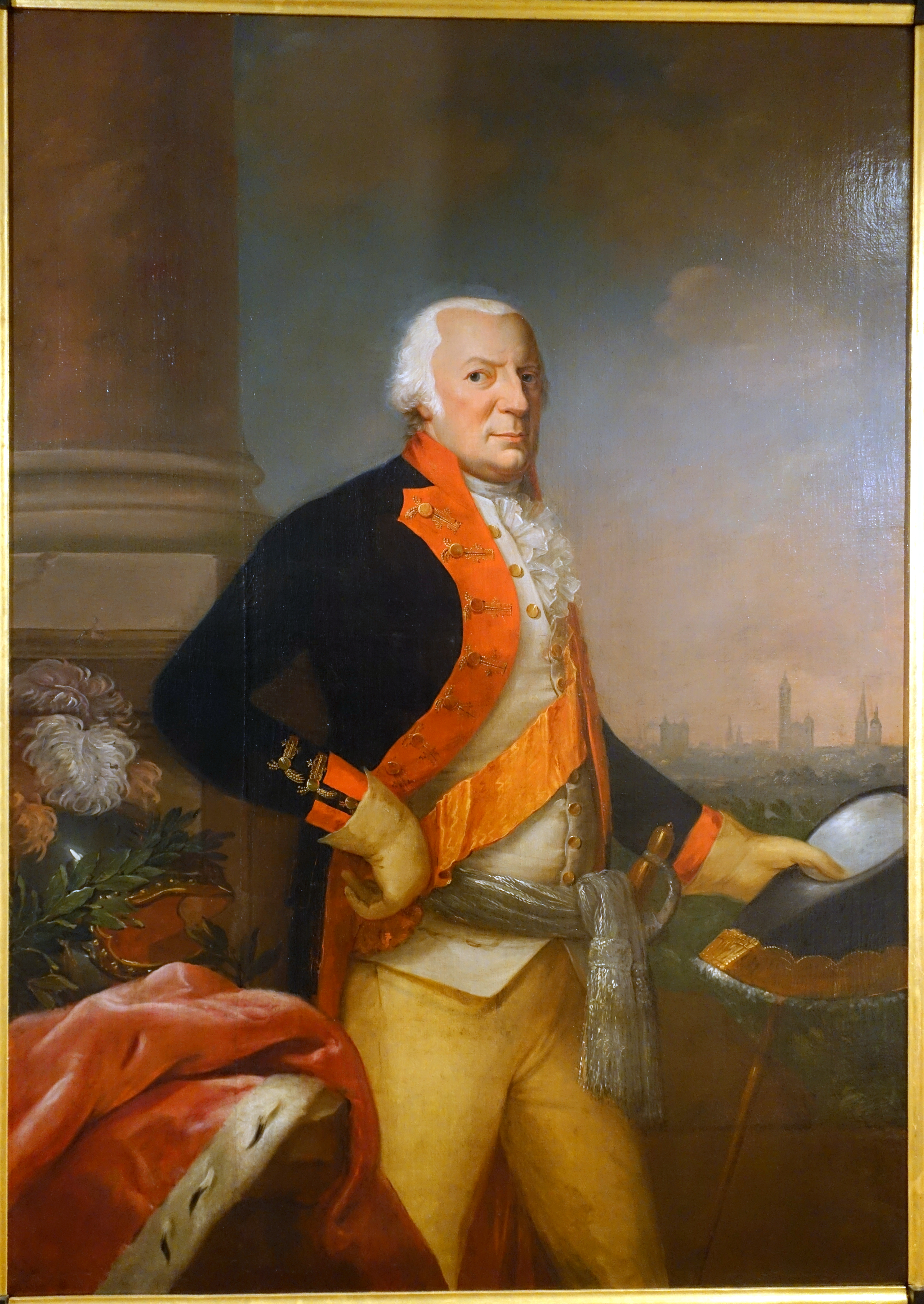 Exhibit in the Braunschweigisches Landesmuseum, Braunschweig, Germany. This work is in the public domain because the artist(s) died more than 100 years ago.